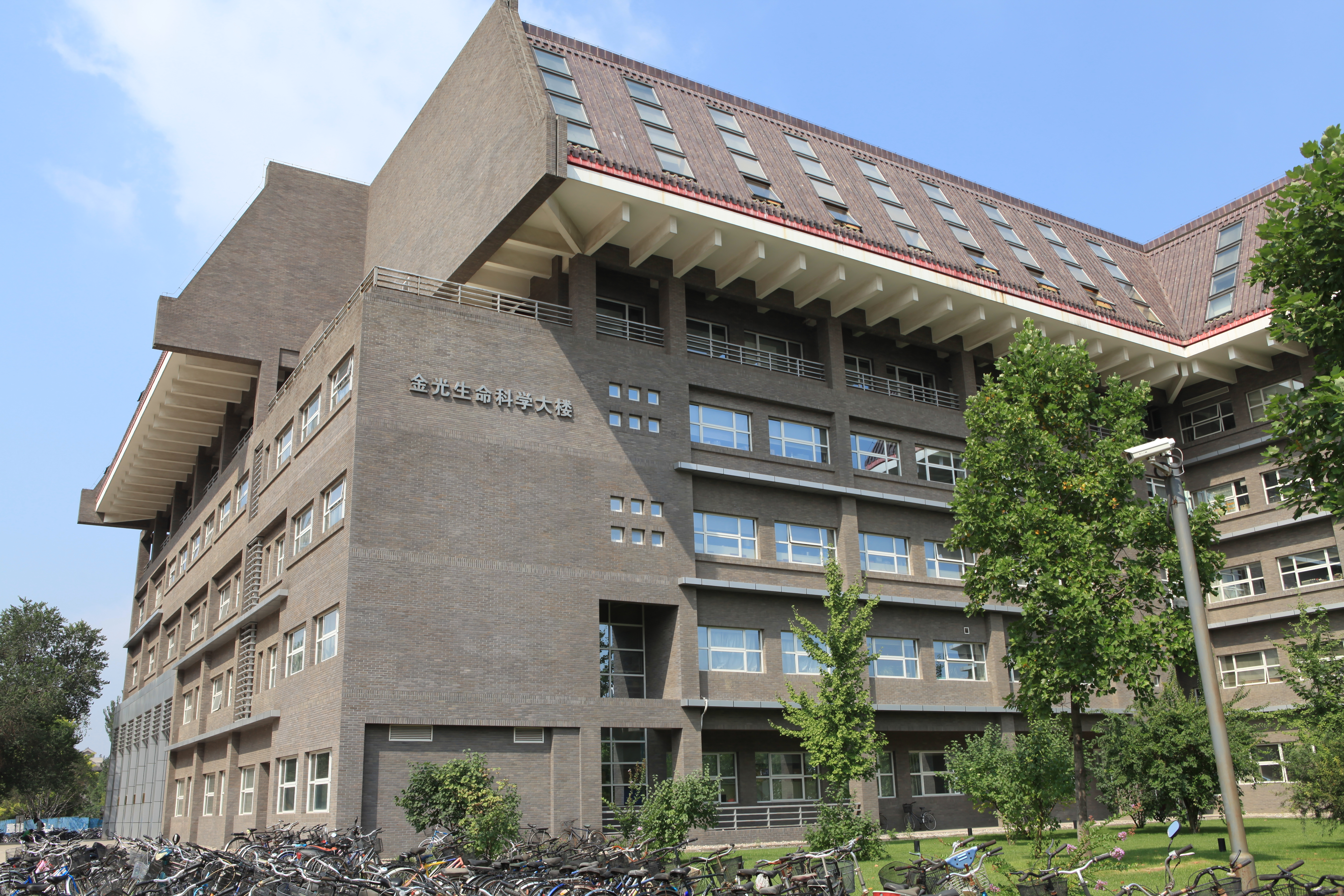 Peking University Building of Life Sciences